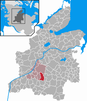 Locator maps of municipalities in Schleswig-Holstein - District Rendsburg-Eckernförde